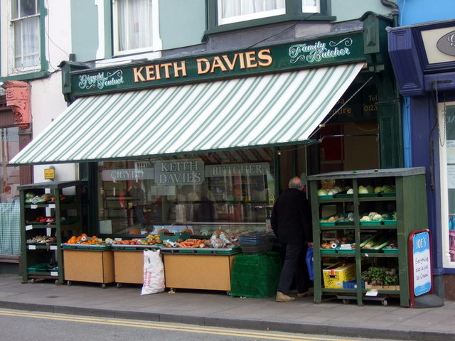 Cigydd teuluol/family butcher One of two butchers remaining in the centre of Cardigan. This one in Pendre sells vegetables too, useful now that there is no longer a greengrocer in the main street.